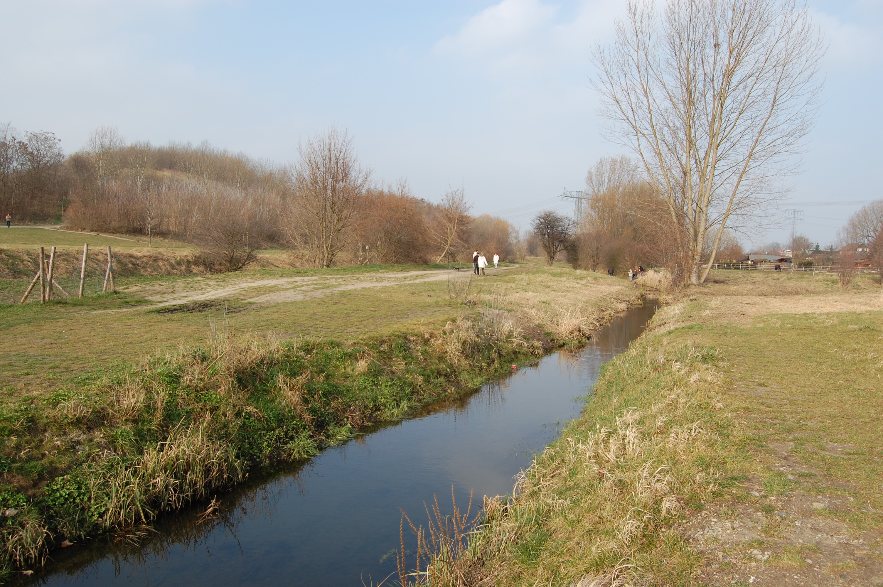 Wuhle between Berlin-Marzahn and Ahrensfelde-Eiche